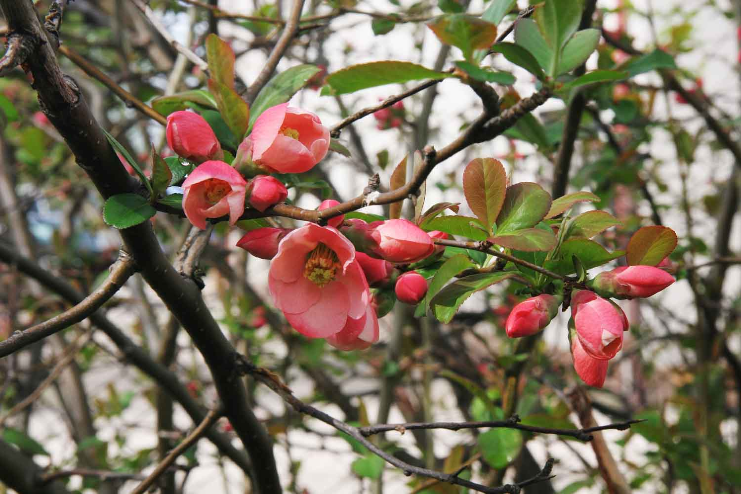 Chaenomeles - Flowers Autor:Prazak